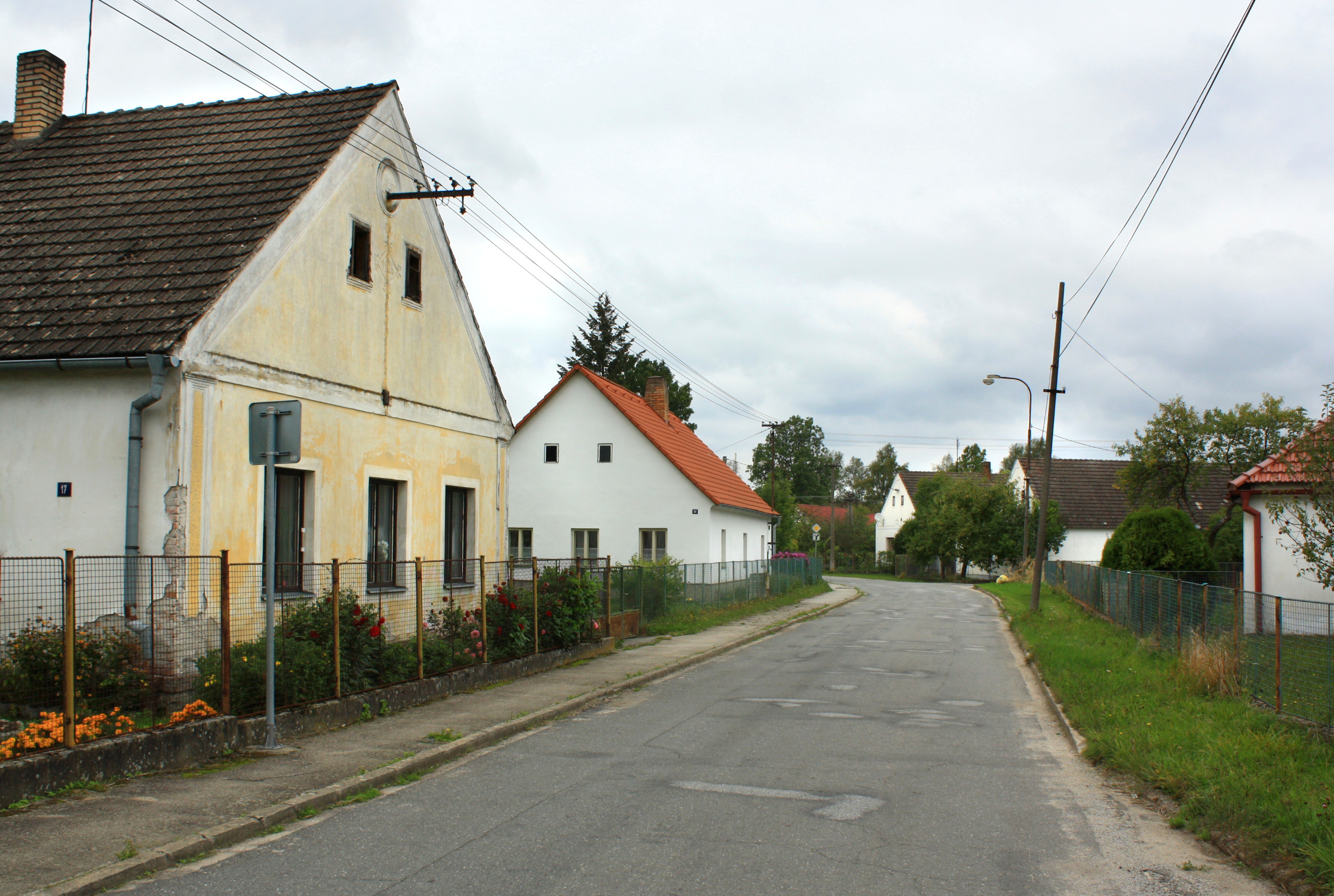 Road No 153 in Příbraz, Czech Republic